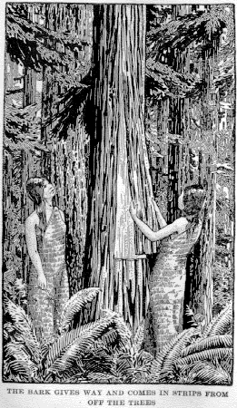 ( and From Indian Legends of Vancouver Island by Carmichael, Alfred Illustrator Semeyn, J. Project Gutenberg Copyright expired)